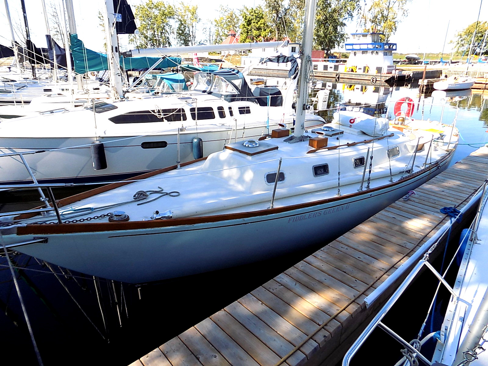 A Frigate 36 sailboat named Fiddler's Green II.